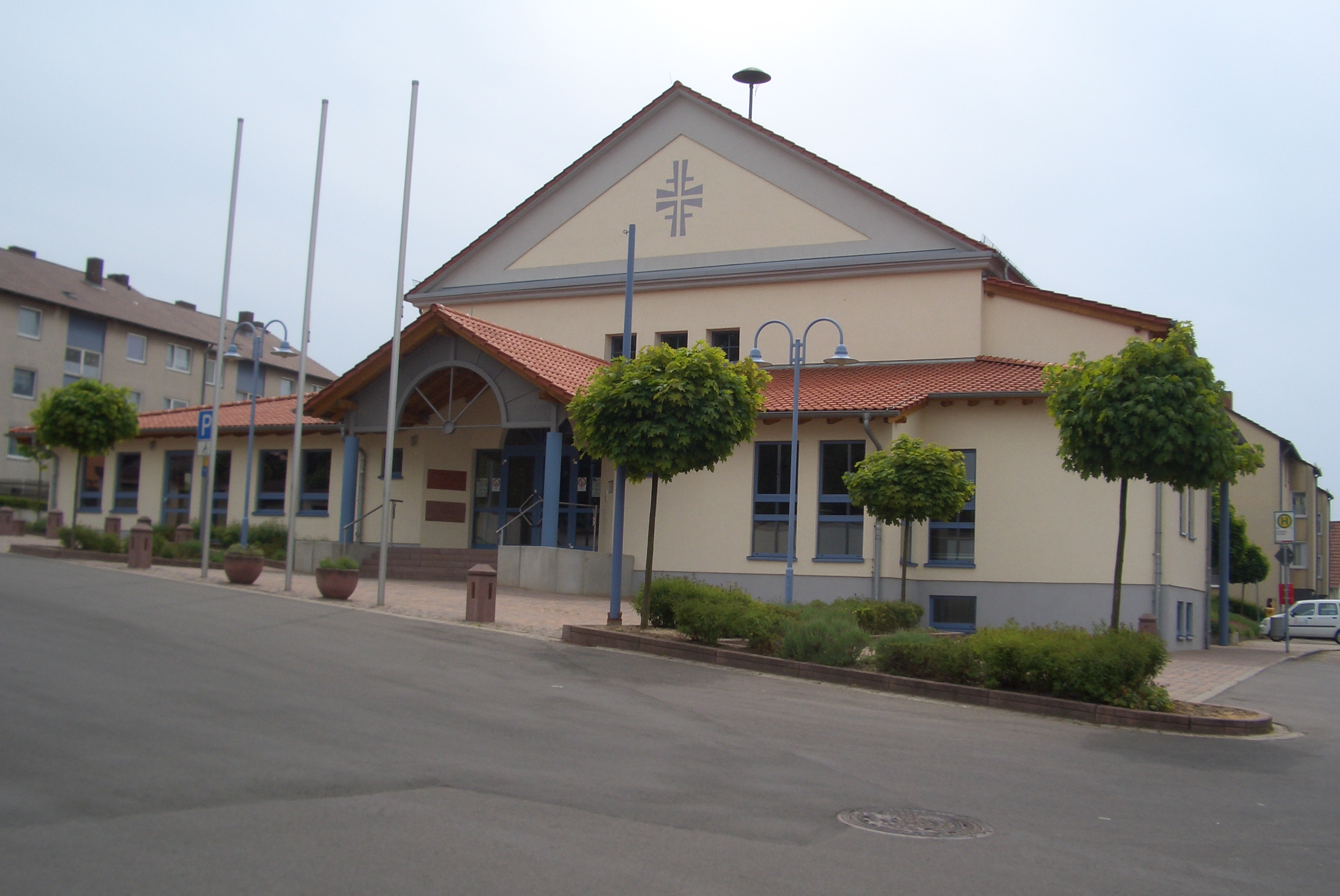 Festhalle Hettenleidelheim, originally built by the gymnastics club Gut-Heil as gym.Pälzisch: Hettrumer Turnhall , formell ach Festhalle orre Gut-Heil-Halle